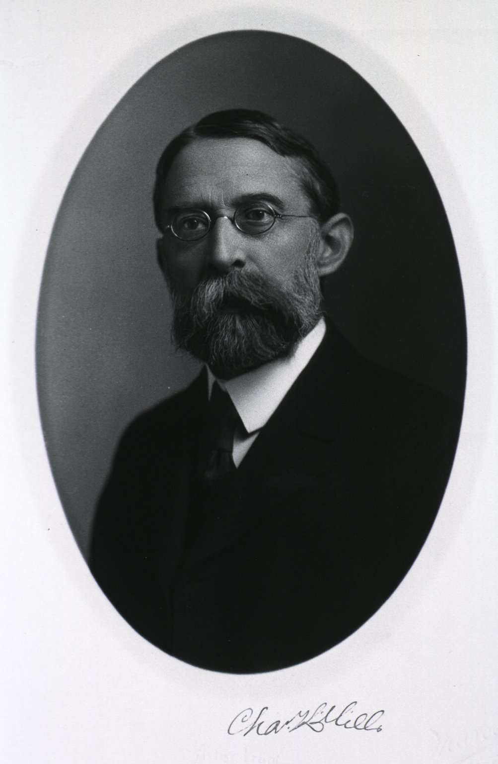 Charles K. Mills, Appears in Souvenir [Album]: Complimentary banquet...[for] Dr. Robert Fletcher by his friends, Jan. 11th, 1906, p. 248.